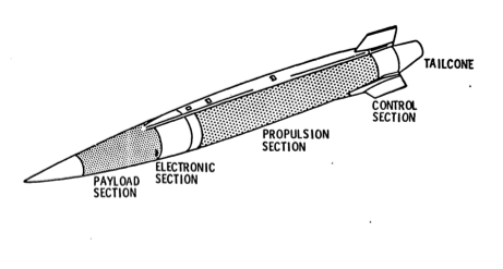 Drawing of AGM-69 SRAM from a 1975 USAF technical paper